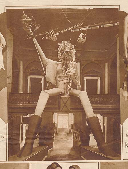 Künstlerhaus Archiv Gschnas-Feste_Fest am 8. Februar 1930 “Im Traumland”. Figur “Der verschnupfte Zeus” mit einem elektrischen Blitz von Erwin Puchinger, Josef Heu und Ferdinand Opitz (Künstlerhaus Archiv) © Künstlerhaus Archiv